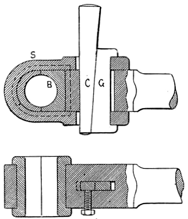 Connecting rod end, strapped (Heat Engines, 1913).jpg